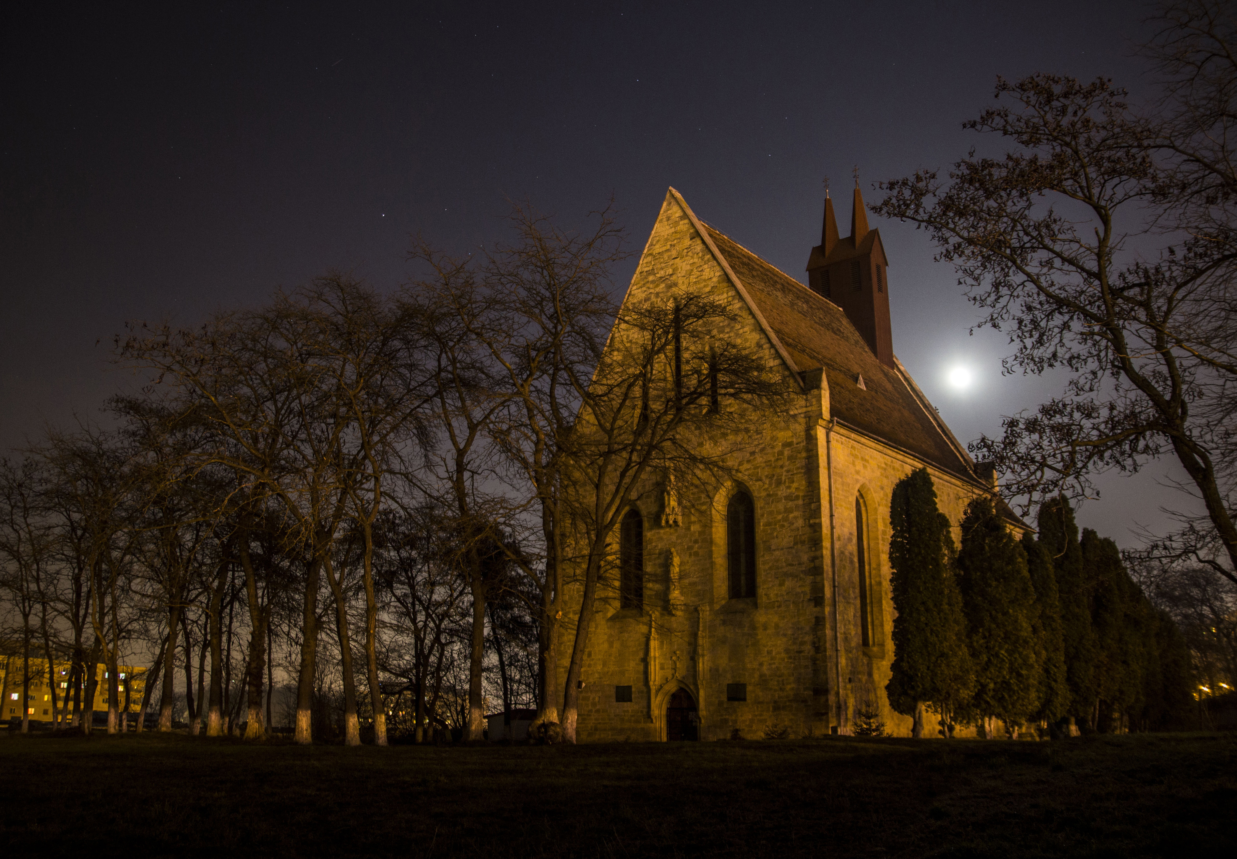 Cluj-Mănăștur Calvaria Church, night shot, view from the southwest, Romania